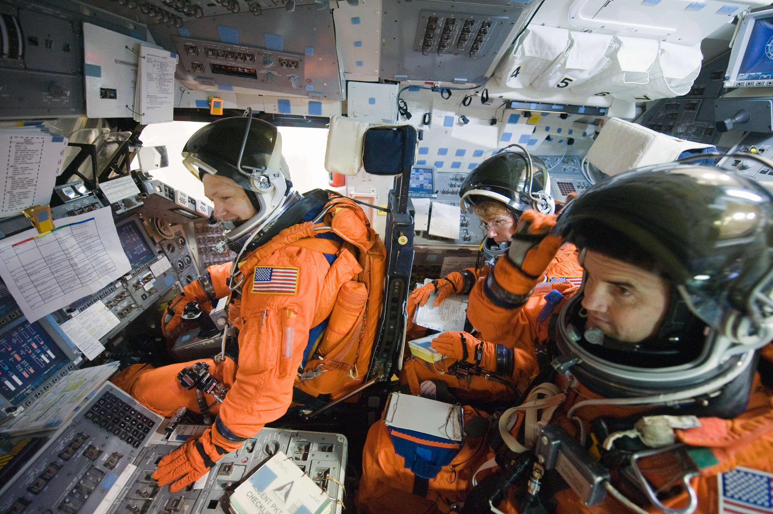 NASA astronauts Doug Hurley (left), STS-135 pilot; Rex Walheim and Sandy Magnus, both mission specialists, attired in training versions of their shuttle launch and entry suits, participate in a post insertion/de-orbit training session on the flight deck of the crew compartment trainer (CCT-2) in the Space Vehicle Mockup Facility at NASA's Johnson Space Center. STS-135 is planned to be the final mission of the space shuttle program.